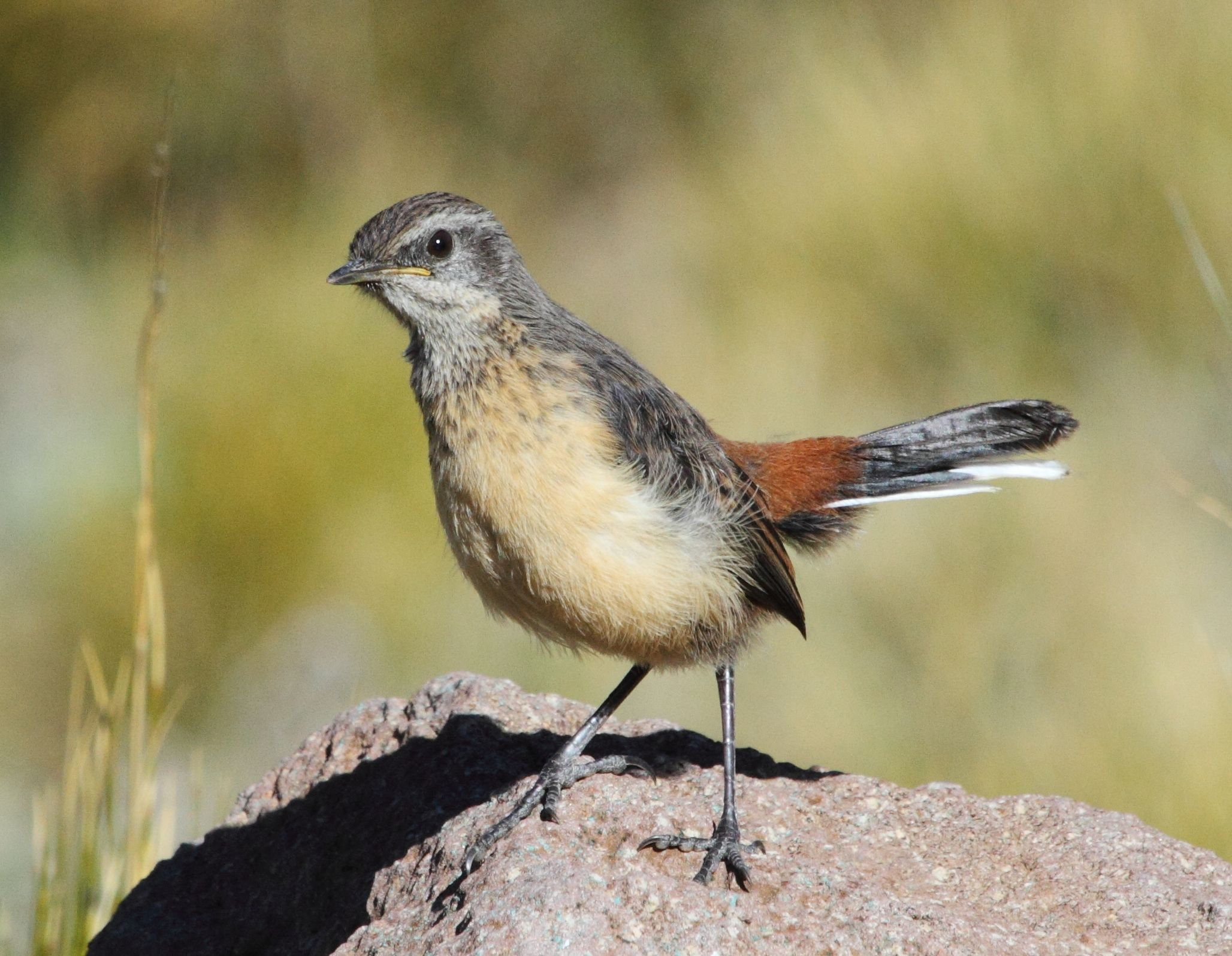 Immature Drakensberg rockjumper Chaetops aurantius. At Afriski, Butha-Buthe, Lesotho. This is a crop of